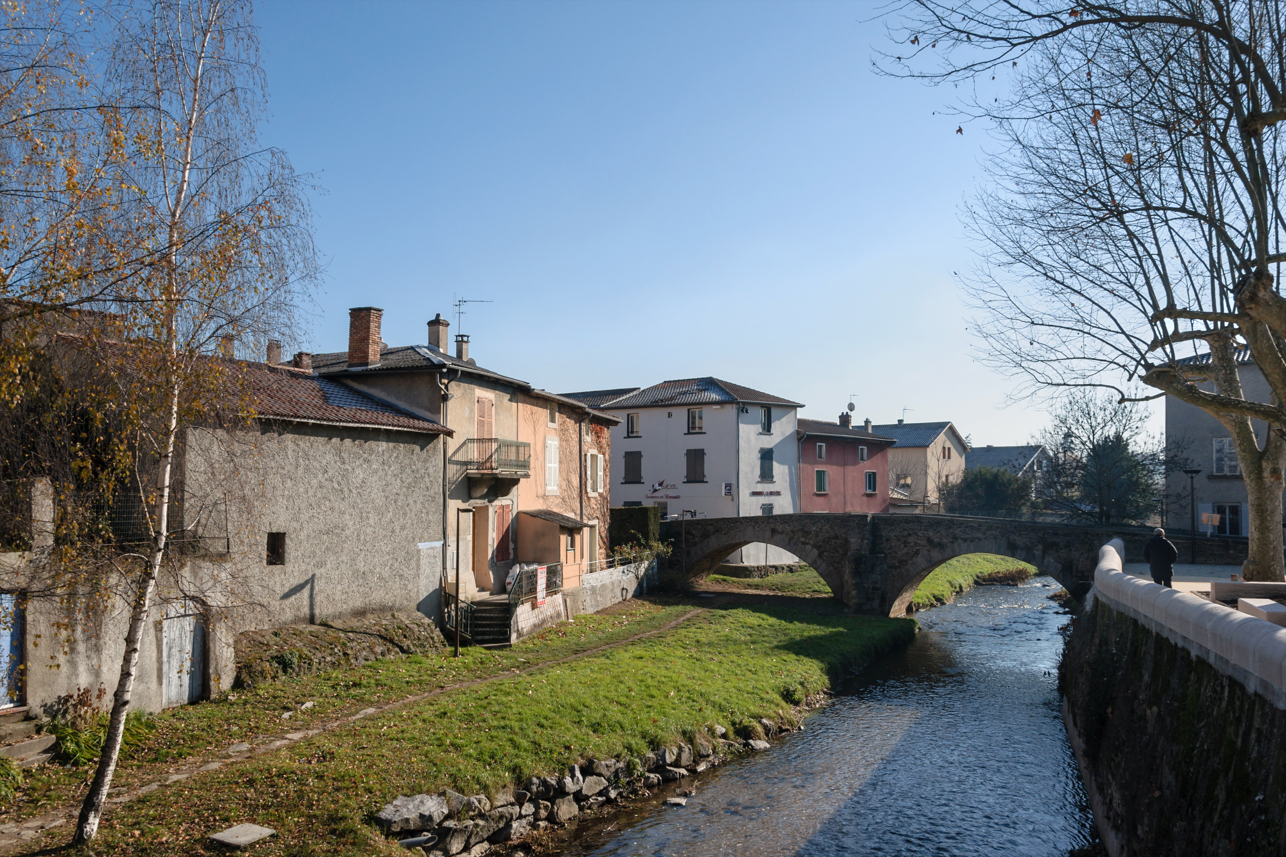 The river Garon at Brignais, Rhône, France, crossed by the old bridge of Brignais.